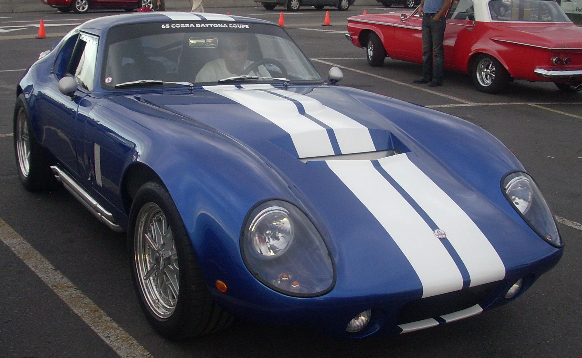 1965 AC Cobra Daytona replica photographed in Montreal, Quebec, Canada at Gibeau Orange Julep.